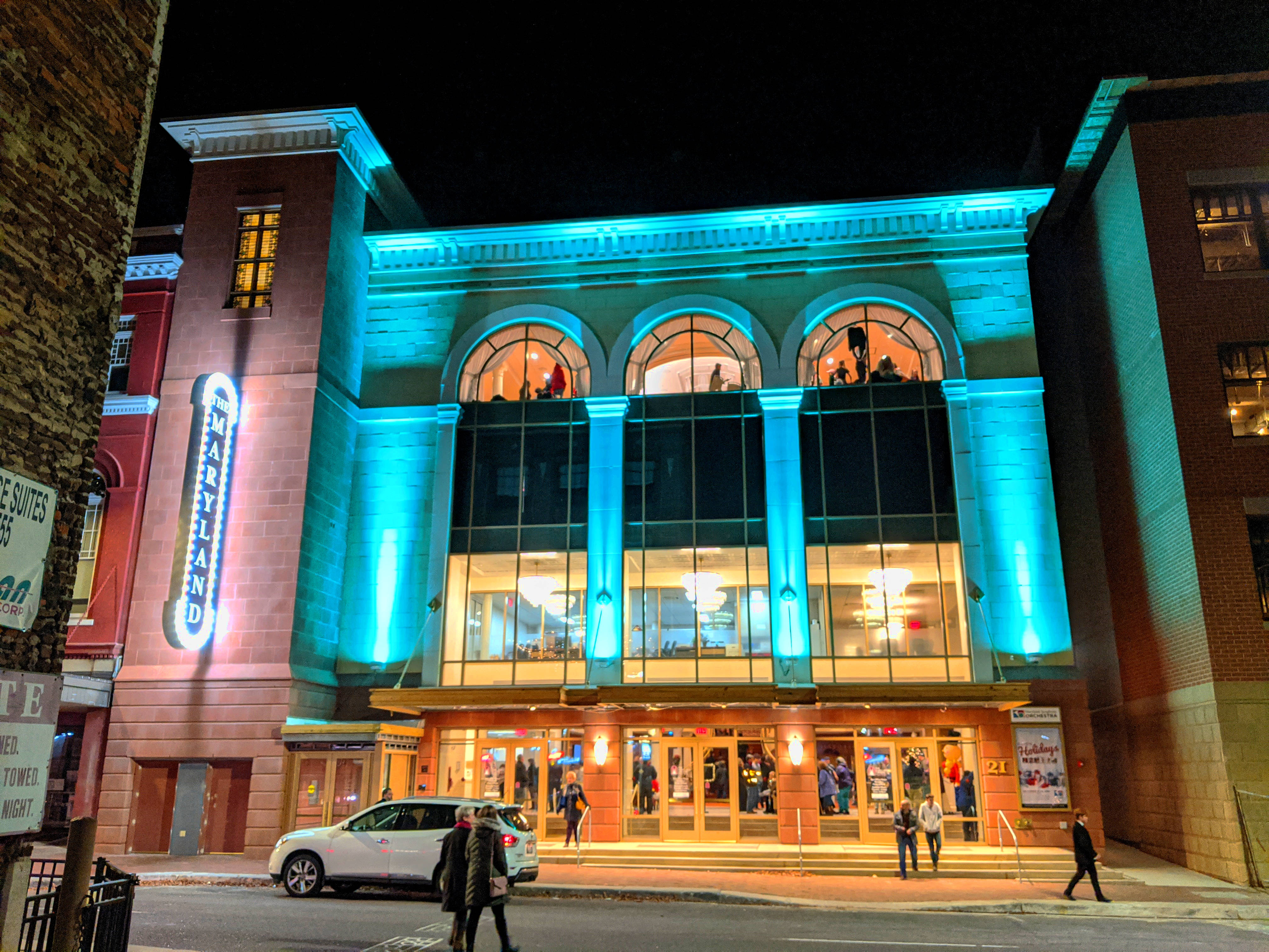 The newly-built facade of the Maryland Theatre in Hagerstown, Maryland at night shortly after its reopening in late 2019.